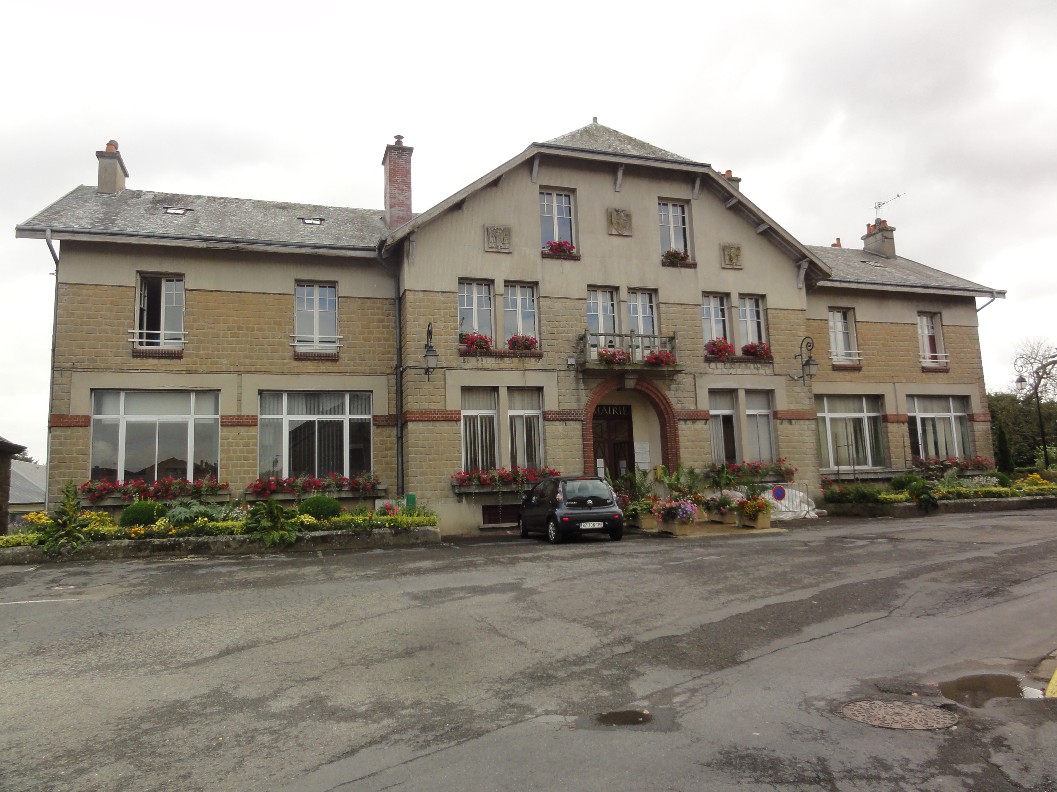 Prix-lès-Mézières (Ardennes) mairie